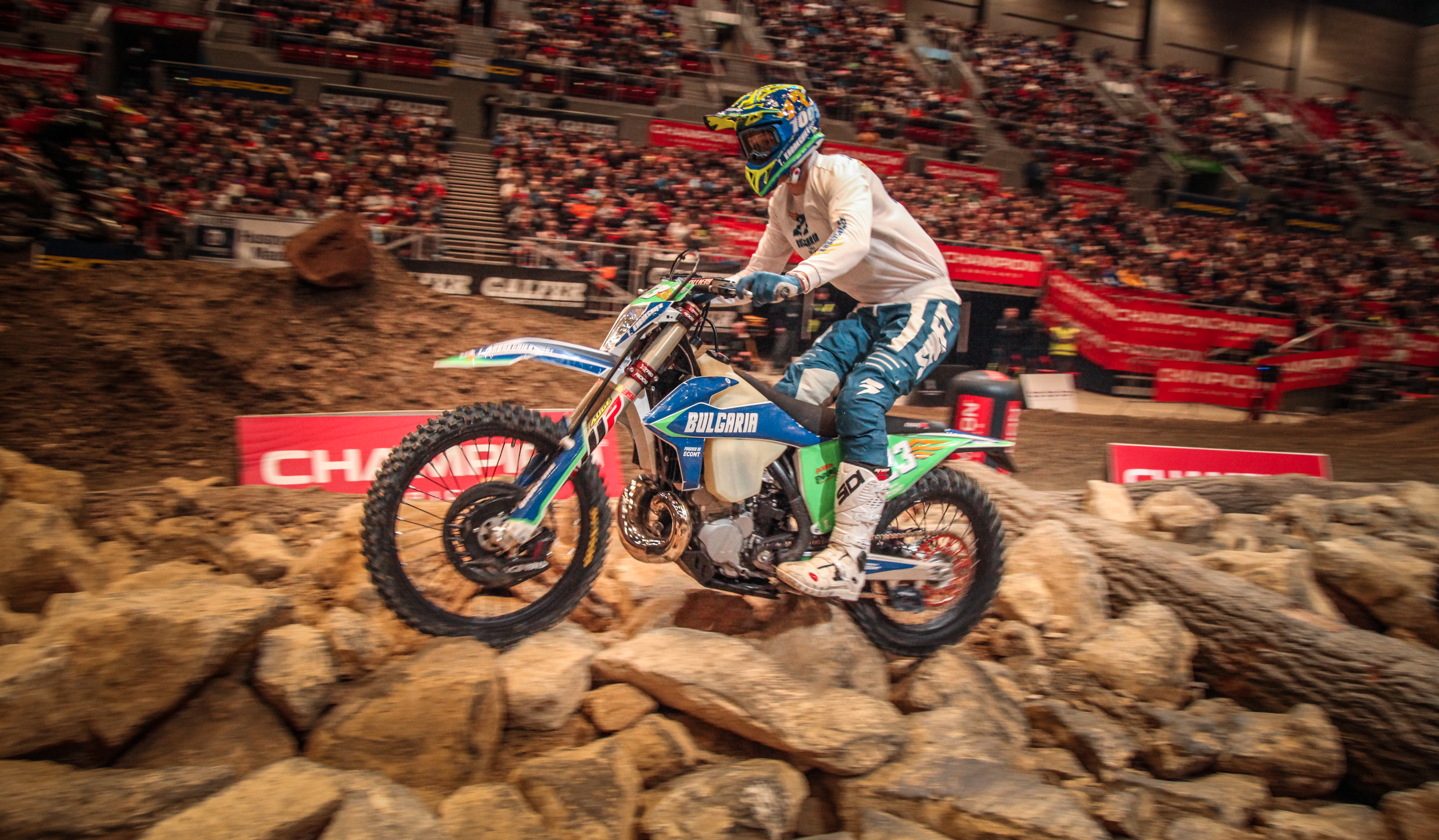 Teodor Kabakchiev at FIM Superenduro World Championship in Krakow - December 2019